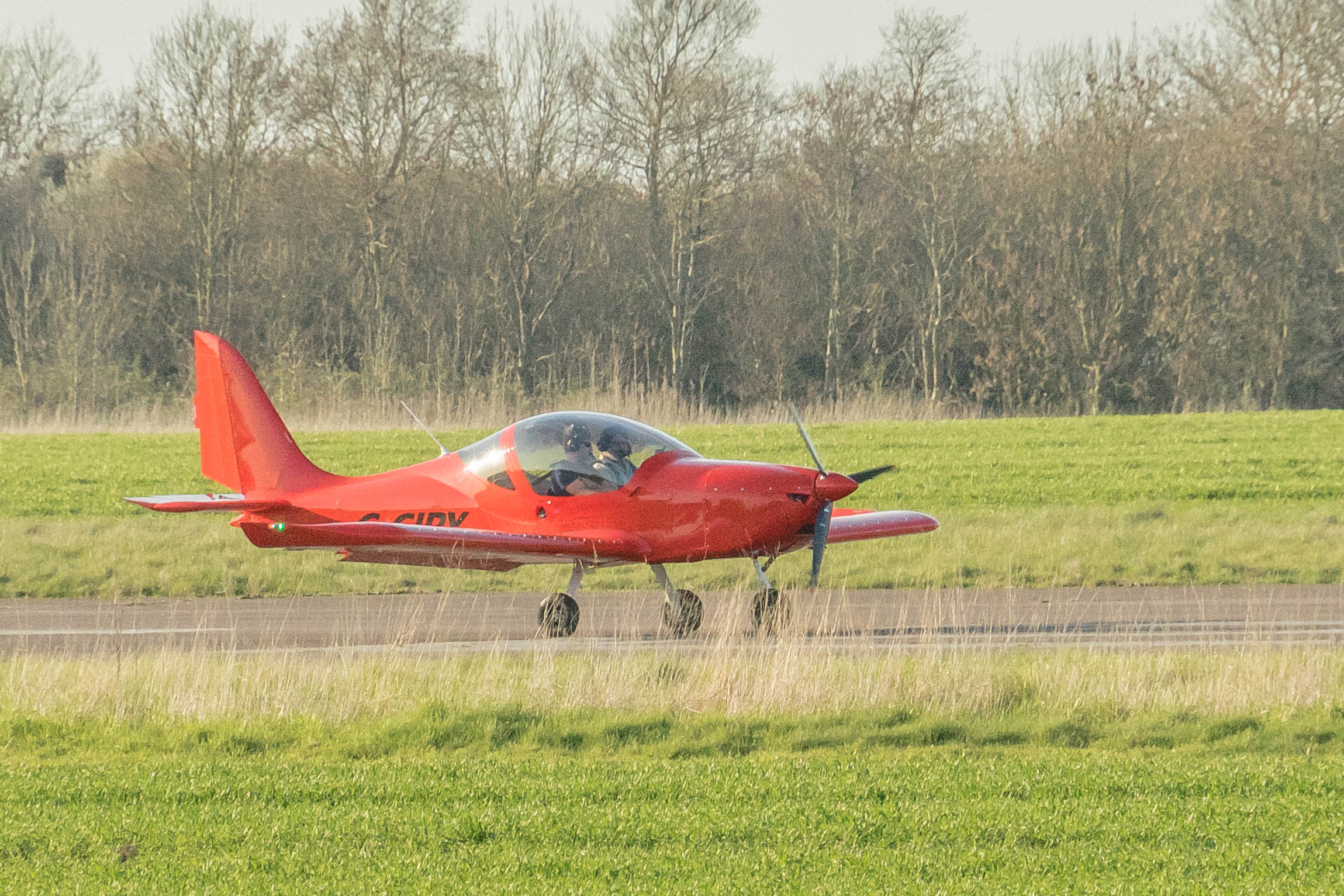 Rolling Evektor EV-97SL EuroStar for departure at Leicester airport.